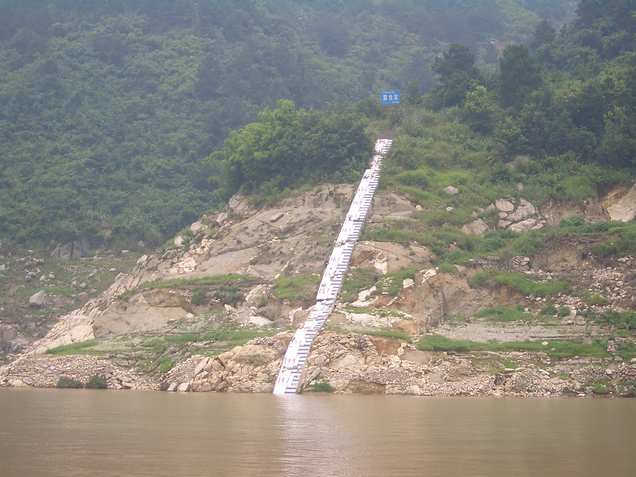 A water level gauge of sorts on the left (north) bank of the Three Gorges Reservoir—Chang Jiang (Yangtze River) a few miles upstream of Maoping Town (and the Three Gorges Dam). The current level is around 146 m above the sea level. The blue sign above （禁伐区） announces that logging is prohibited in this area.